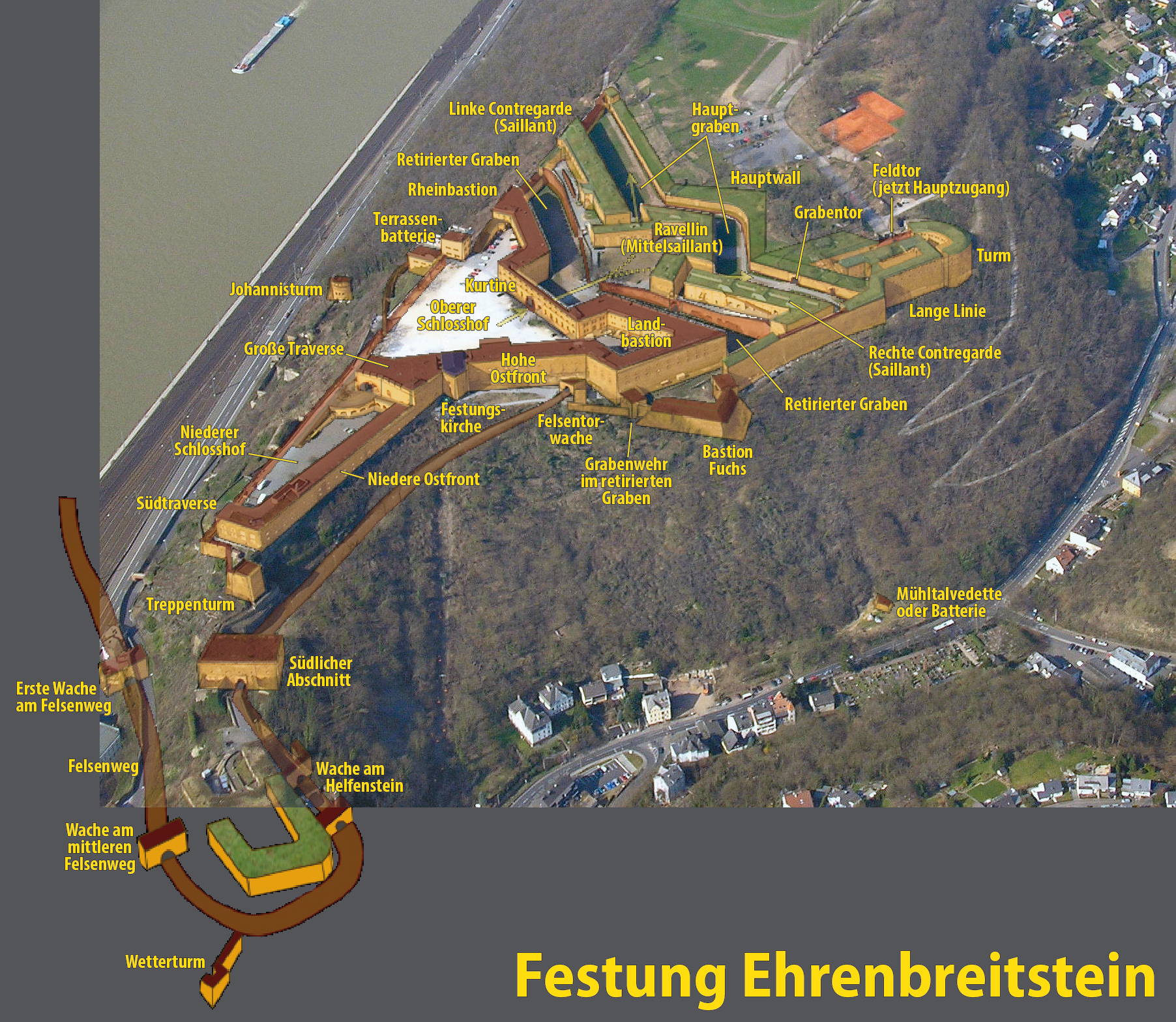 Map of Festung Ehrenbreitstein (with aerial image in the background)